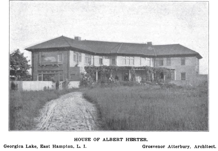 Photo: House of Albert Herter. Article: Charles de Kay, "Villas All Concrete," The Architectural Record, vol. 17, no. 2 (February 1905), p. 86.